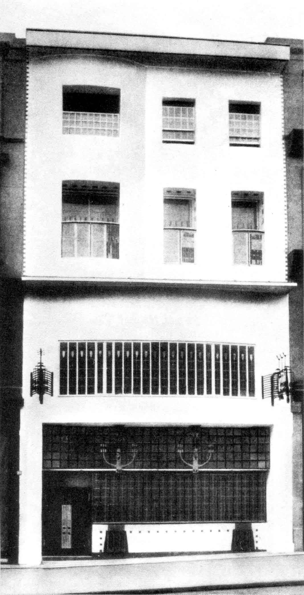 Miss Cranston's Willow Tearooms, designed by Charles Rennie Mackintosh.